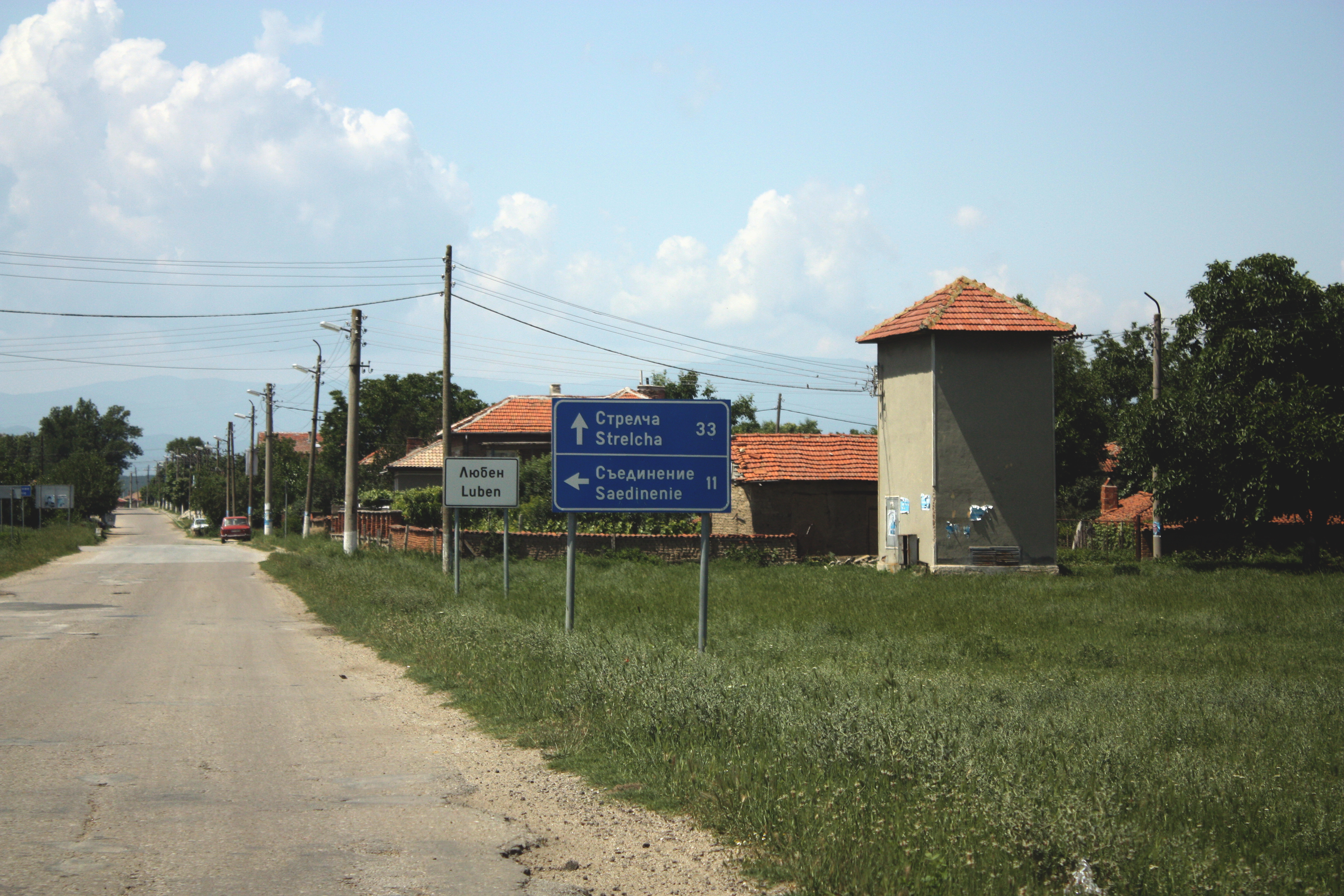 The entrance road to Lyuben village, Bulgaria